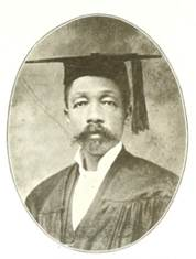 Photograph of Miles V. Lynk from the book The negro pictorial review of the great world war; a visual narrative of the negro's glorious part in the world's greatest war, published in 1919